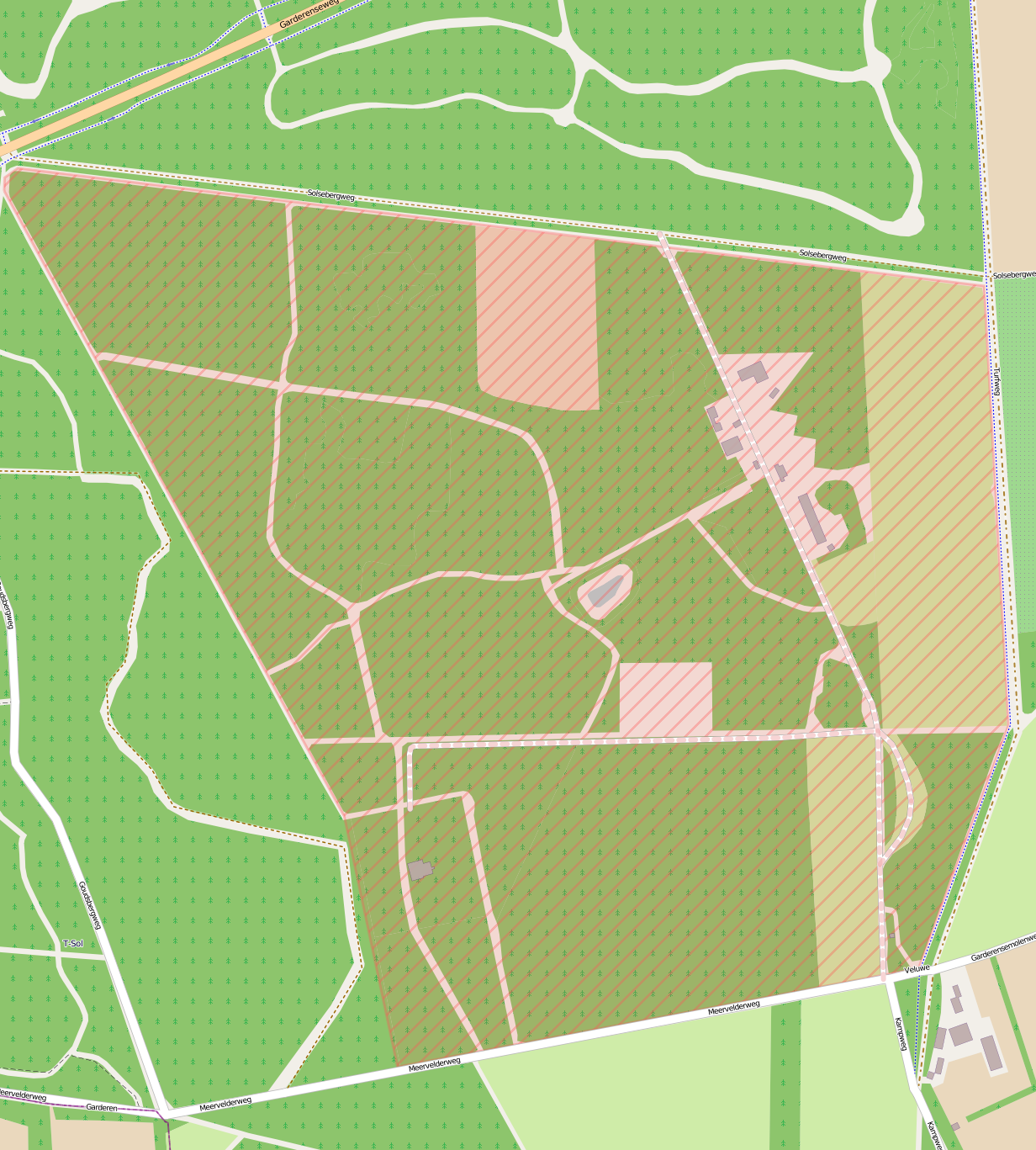 Open Street Map of the Control Station.